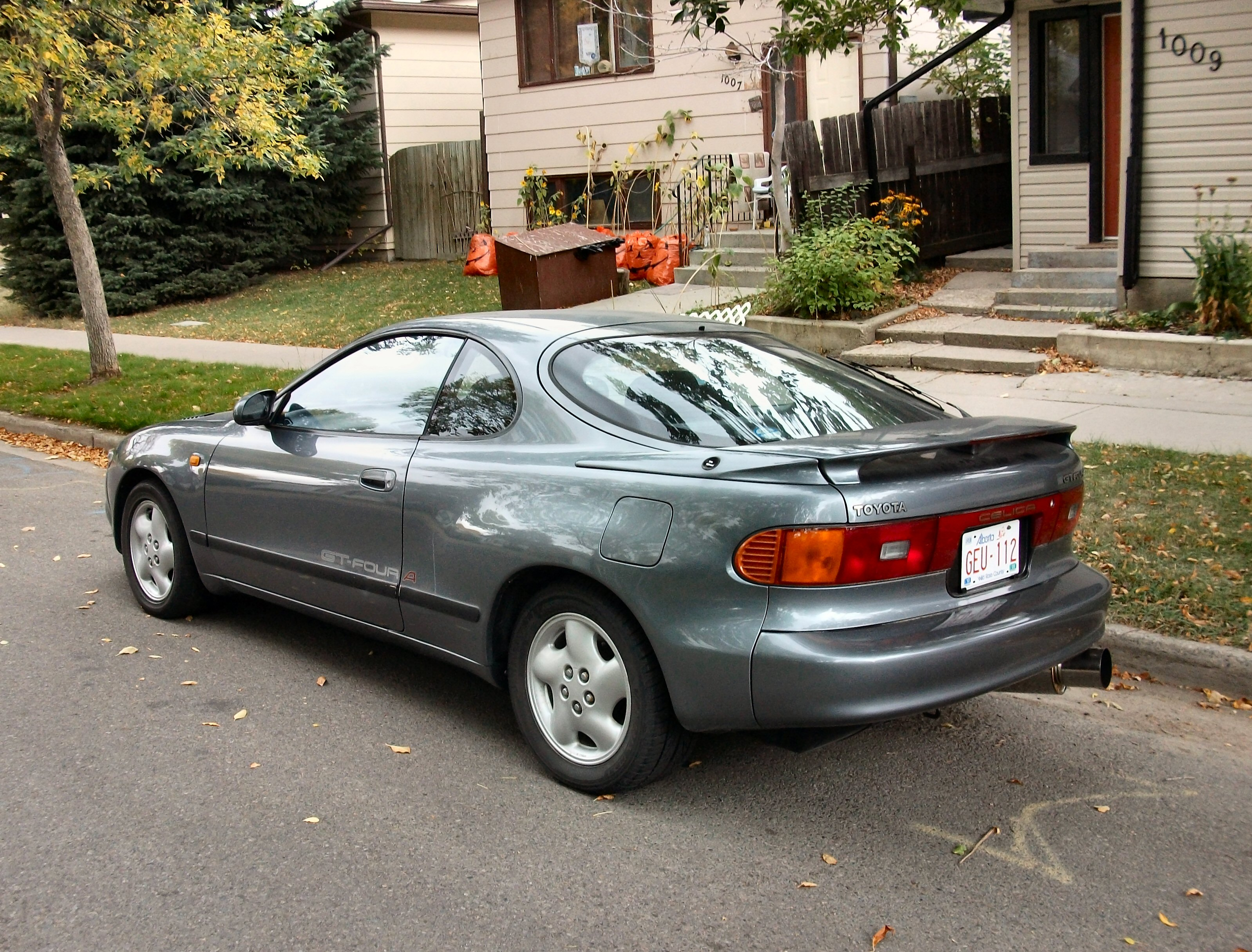 Toyota Celica GT-Four A (ST185) - imported from Japan this would be the same as what was called the All-Trac Turbo in the USA, or Turbo 4WD in Canada.